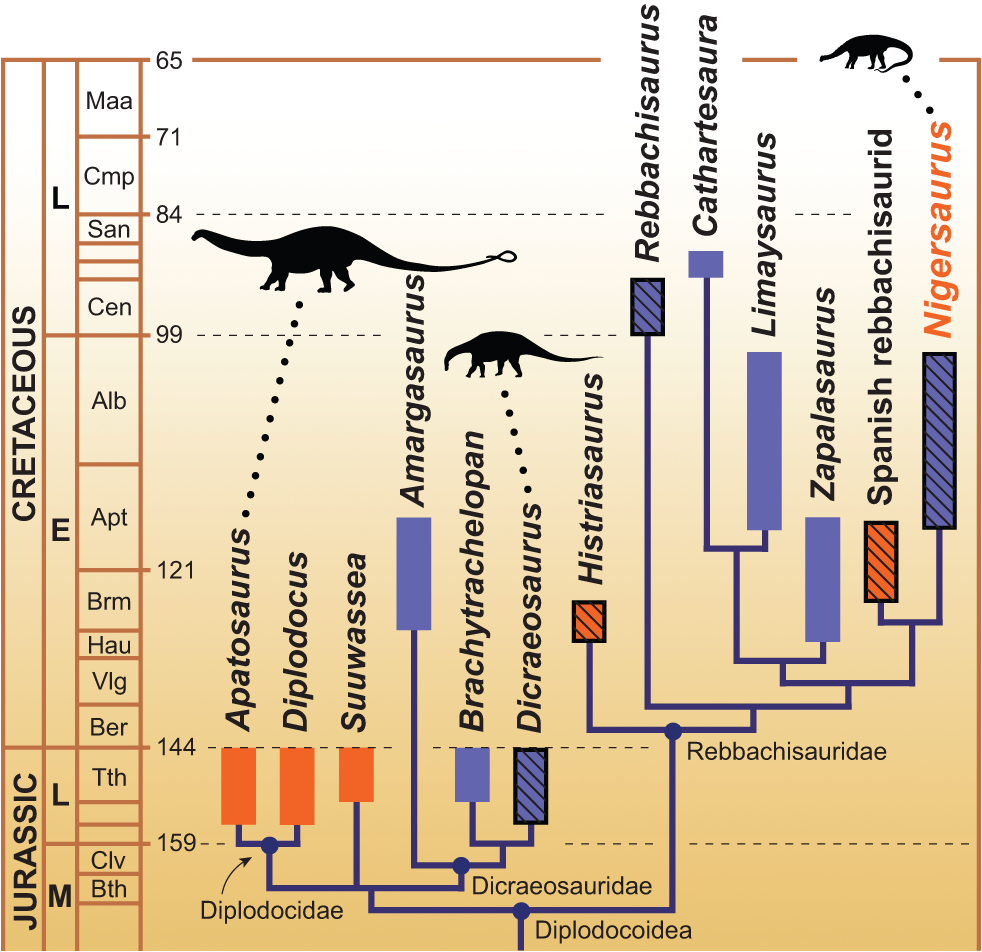 Original description: The diagram is based on strict consensus of five minimum-length trees using 13 ingroup taxa and 102 unordered characters (CI = 0.76; RI = 0.78) (Text S5). Scaled icons represent a diplodocid (Apatosaurus) [11], dicraeosaurid (Dicraeosaurus) [51], and a rebbachisaurid (Nigersaurus). Geographic distributions include Laurasian diplodocoids (western North America—Apatasaurus, Diplodocus, Suuwassea; Europe—Histriasaurus, Spanish rebbachisaurid) and Gondwanan diplodocoids (South America—Cathartesaura, Limaysaurus, Zapalasaurus; Africa—Rebbachisaurus, Nigersaurus). Temporal boundaries based on a recent timescale [52]. Color scheme: Laurasia (orange); Gondwana (blue); North America (solid orange); Europe (striped orange); South America (blue); Africa (striped blue).